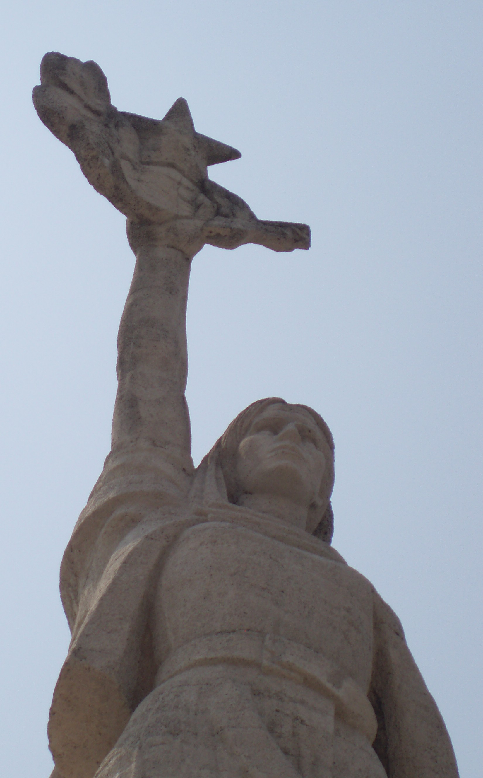 Mother Albania. The partisan monument and graveyard on the outskirts of Tirana, Albania.